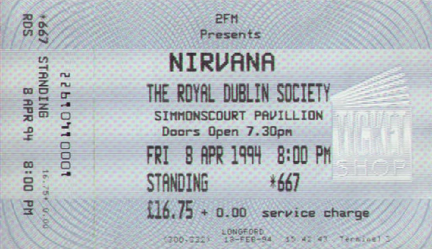 A ticket from one of Nirvana's cancelled shows. This one was supposed to take place on April 8, 1994 (the day Kurt Cobain was found dead in his home) at The Royal Dublin Society, Simmonscourt Pavilion.